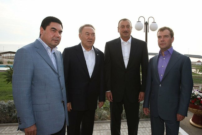 AKTAU, KAZAKHSTAN. Meeting of the presidents of Russia, Kazakhstan, Azerbaijan and Turkmenistan.